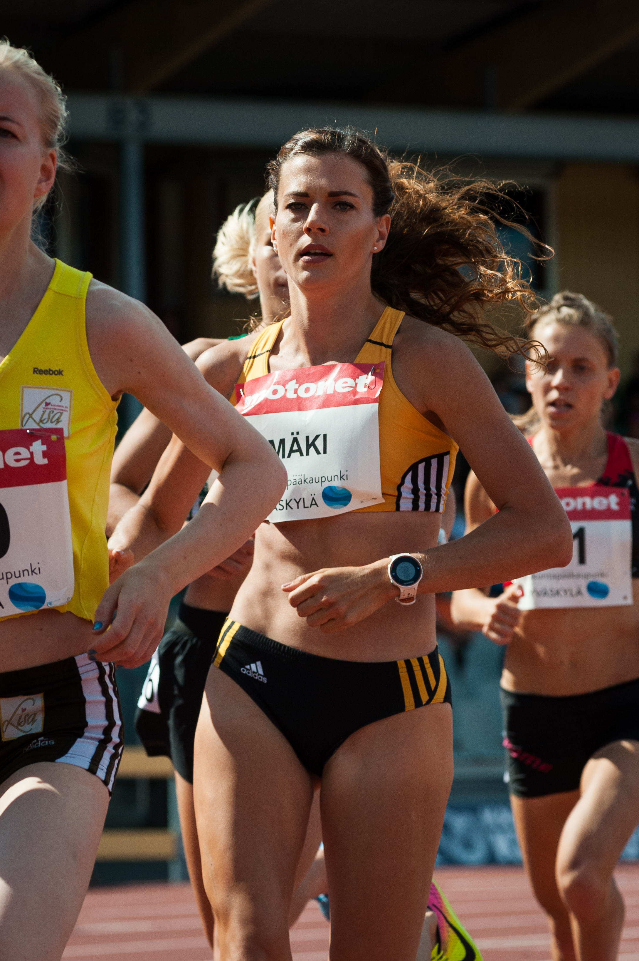 Women's 5000 m competition at the 2018 Kalevan Kisat, the Finnish championships in athletics, in Jyväskylä, Finland.